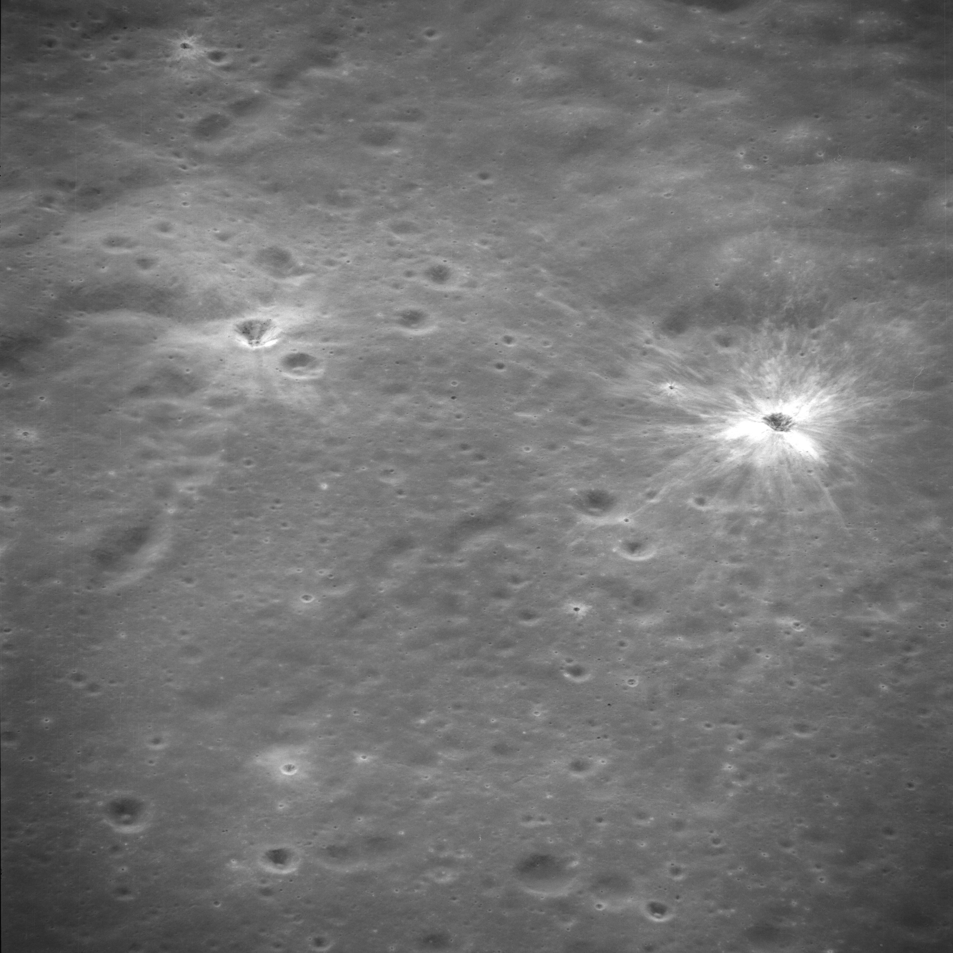 Oblique view of the Apollo 16 landing site, Descartes Highlands, on the moon. This is one of a series of Hasselblad camera closeup images of the site taken from lunar orbit during Apollo 14, and used in Apollo 16 mission planning. North Ray crater is at left and South Ray crater is at right, with bright rays.